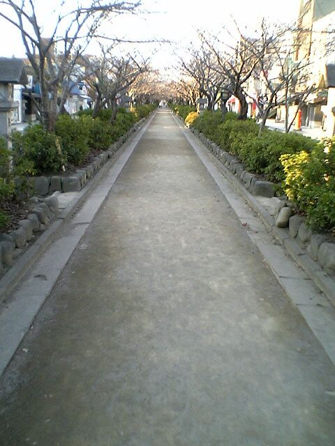 Road leading to the Tsurugaoka Hachimangu shrine (the "Dankazura") at the center of Wakamiya Ōji